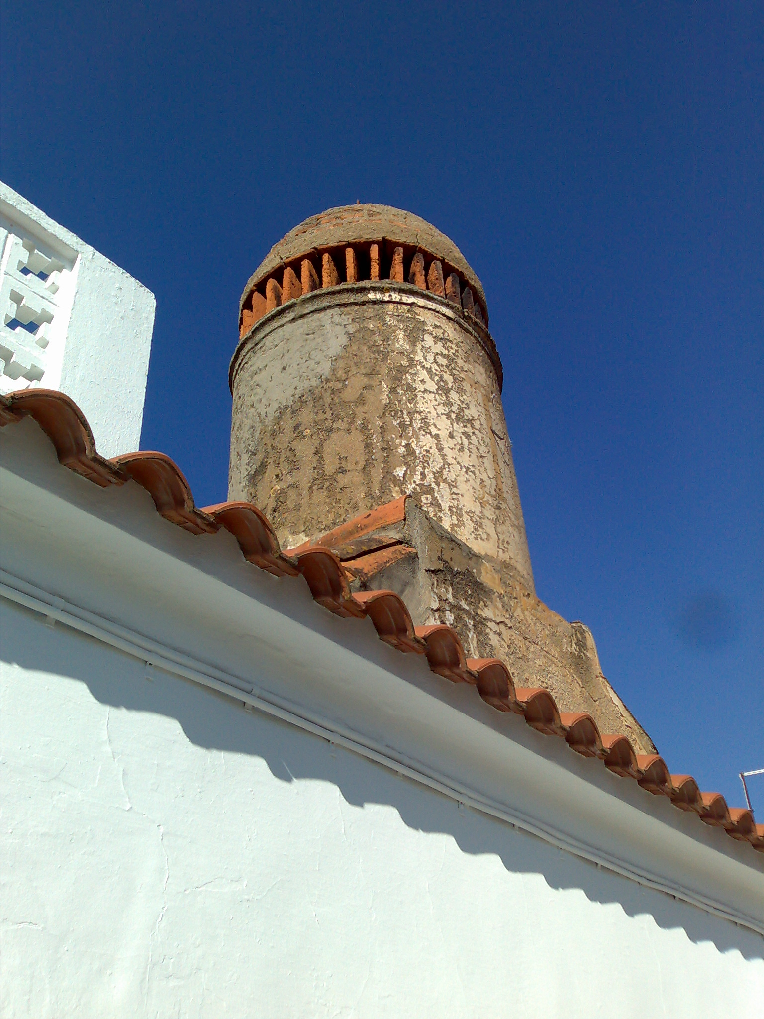 São Jorge da Lor (Olivença)